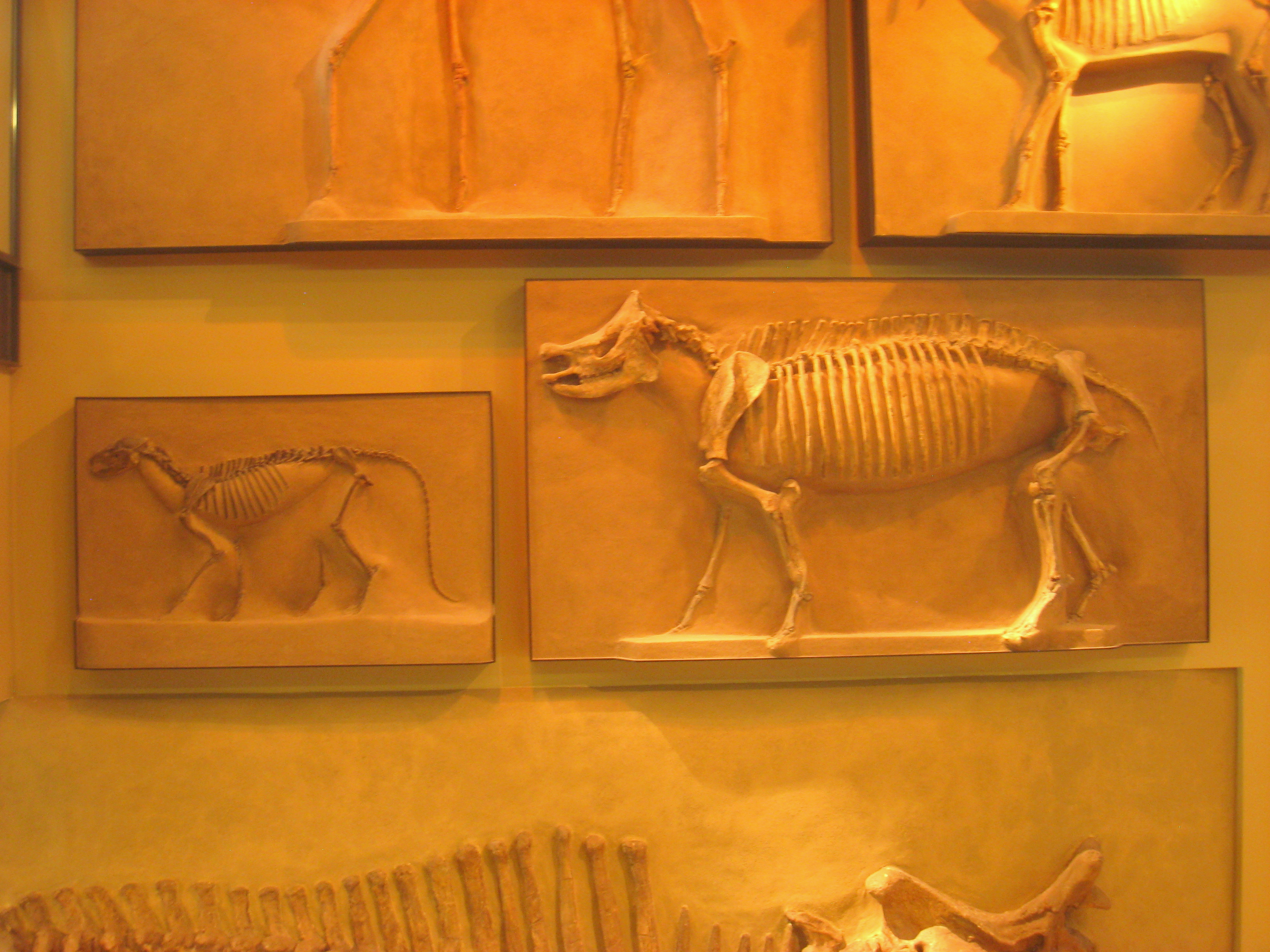 Brachyrhynchocyon (formerly Daphoenus) felinus (left) and Menoceras arikarense (right). Amherst College Museum of Natural History, Amherst, Massachusetts, USA.